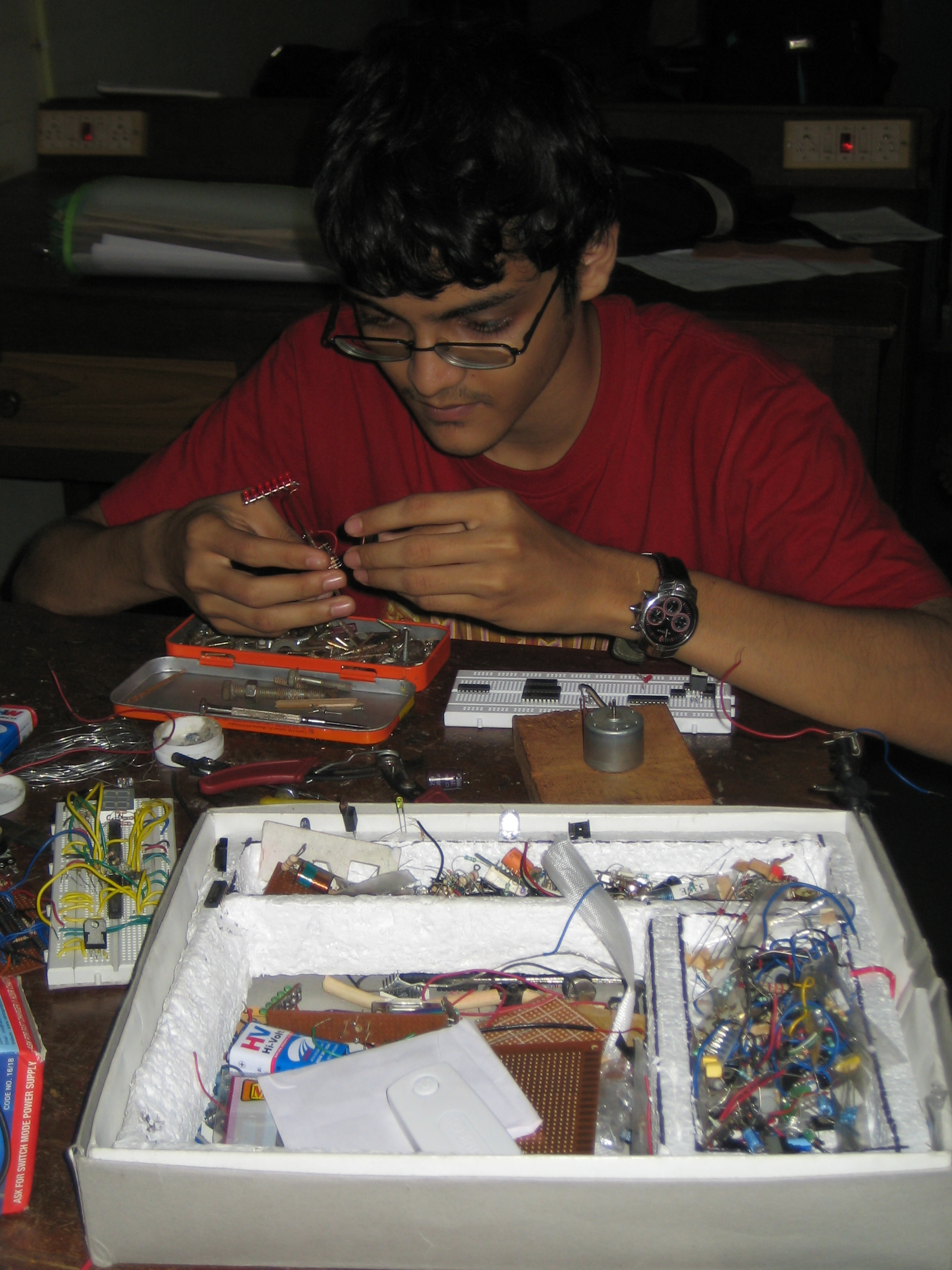 A student participating in the Annual Hardwired competition